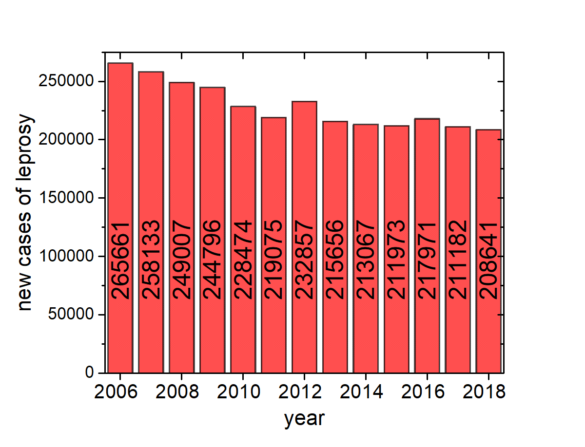 This bar graph of new cases of leprosy in 127 per year, 2006–2018, is based on WHO data published in the Weekly epidemiological record of the World Health Organization No 35, 2016, 91, 405–420 and Nos. 35/36, 2019, 94, 389–413.